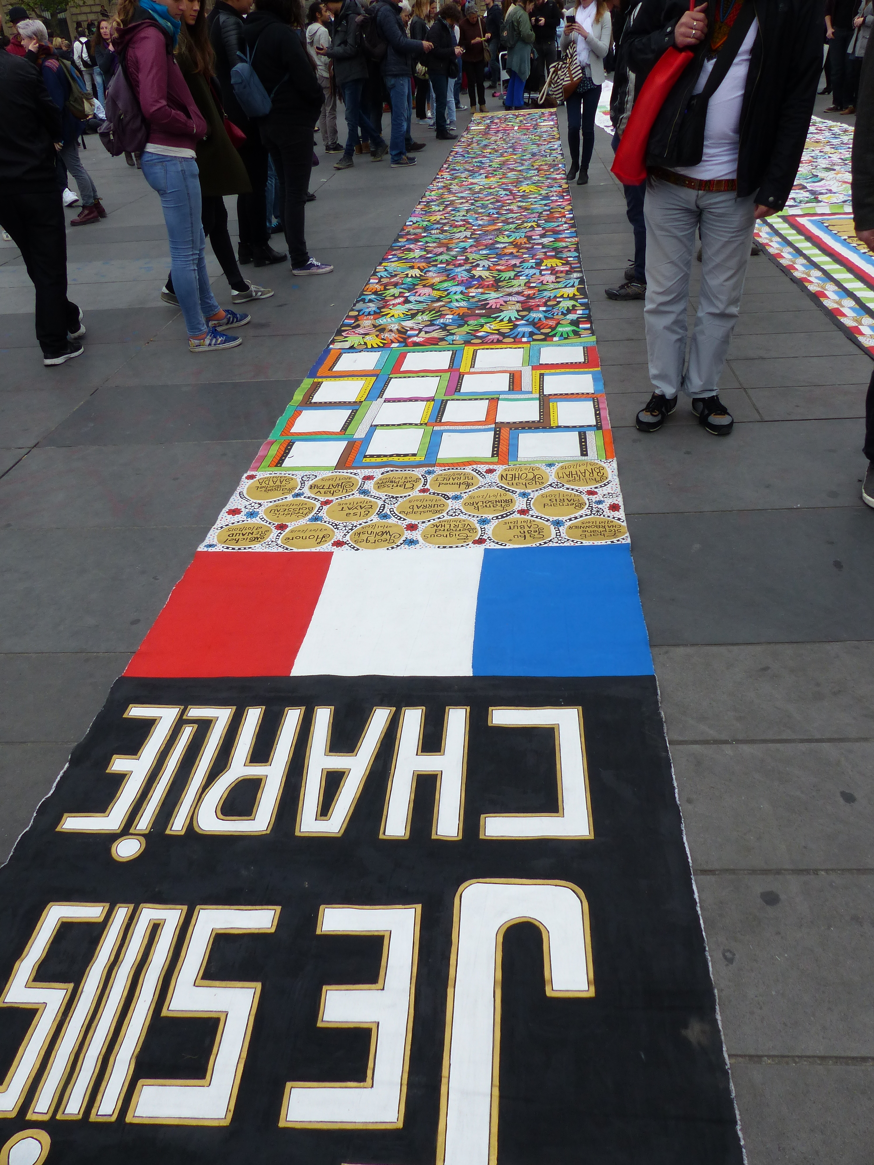 Taken on the 15th of May, 2016. Place de la République, Paris, France. After Ravel’s Bolero played by the Orchestre Debout at 3 PM, the square was set on fire by Danakil with their reggae sound before the exchanges via online-conference calls start at 6.30 PM, connecting the assembly of Place de la République and the other cities around the world and France. Programme (Forecast) of Global Debout in Paris, Place de la République: –15h: Orchestre Debout (Ravel’s Bolero) –16h: Danakil’sconcert –18h30 to 18h45: Opening and presentation of GlobalDebout (and the international meeting that occured on last weekend in Paris, May7-8th)–18h45 to 19h:Launch of the international campaign#Nolist– 19h to 20h: Shared testimonies of citiesaroundtheworld(video)–20h:GlobalDeboutsymbolicactionPresscontact: intnuitdebout[at] Links: International call @GlobalDebout #GlobalDebout #WorldDebout Facebook event May 15th Map of Cities Debout